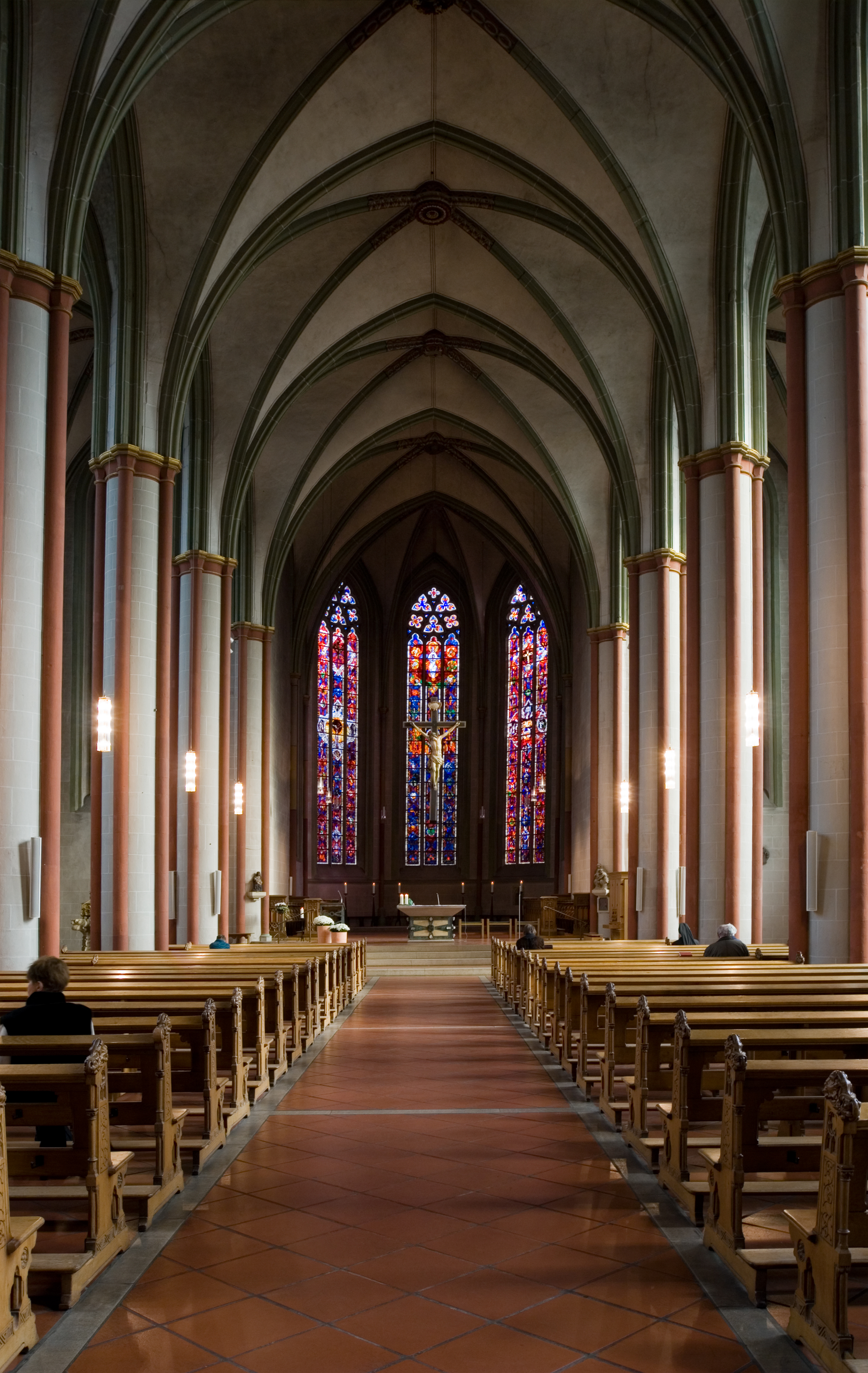 Münster (North Rhine-Westphalia, Germany) – Überwasserkirche (Church of Our Lady) – interior This photograph was taken with a Nikon D3000